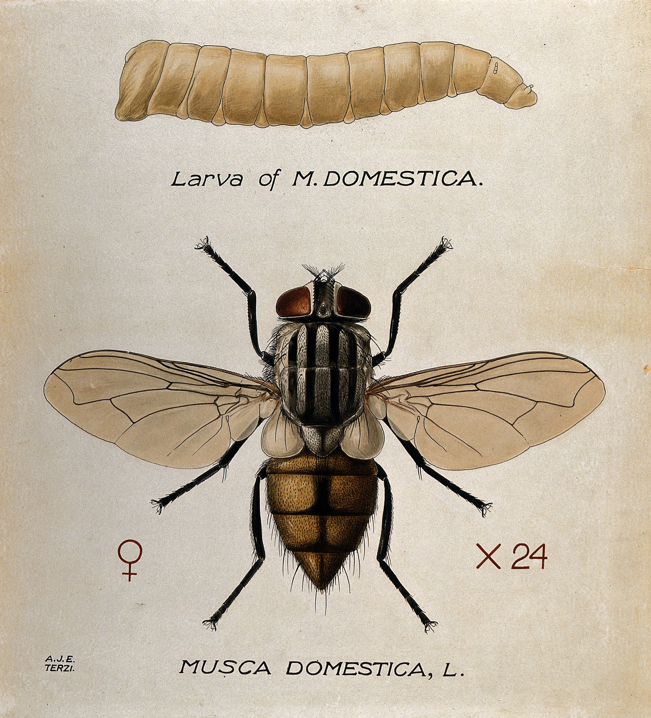 The larva and fly of a house fly (Musca domestica). Coloured drawing by A.J.E. Terzi. Iconographic Collections Keywords: Amedeo John Engel Terzi